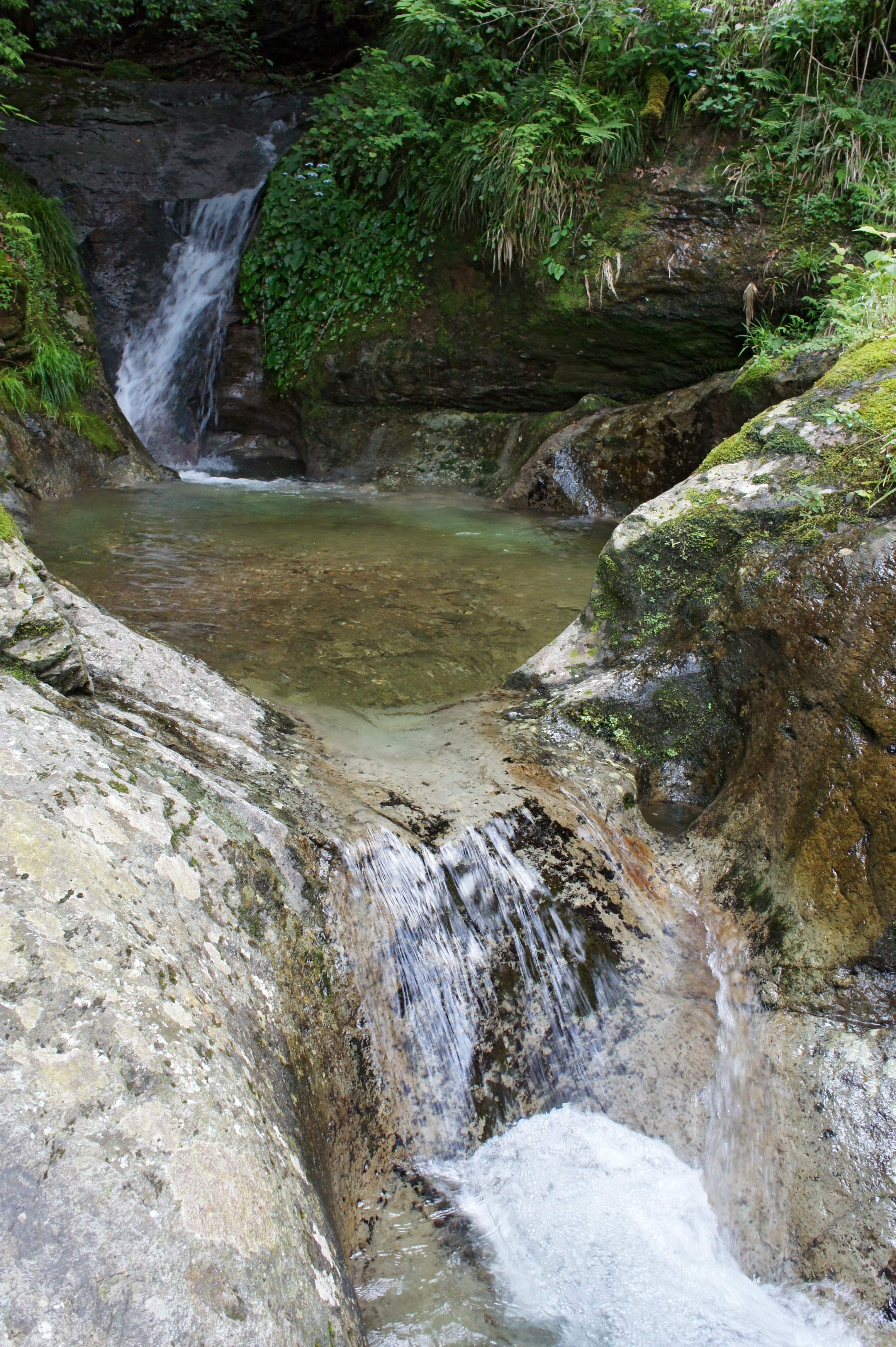 Shikagatsubo of Shikagatsubo in Himeji, Hyogo prefecture, Japan.